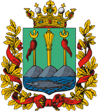 Coat of arms of Ural Province, Russian Empire